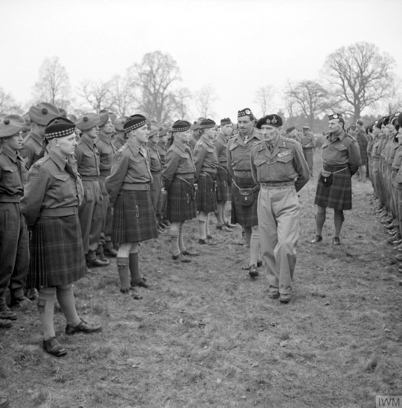 The British Army in the United Kingdom 1939-45 General Montgomery inspects 5/7th Gordon Highlanders, 51st Highland Division, at Beaconsfield, 14 - 17 February 1944.